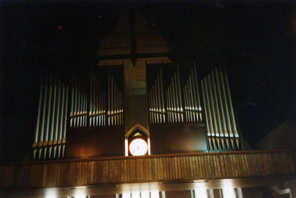 St. Paul's Regina Casavant Frères organ first placed May 4, 1975